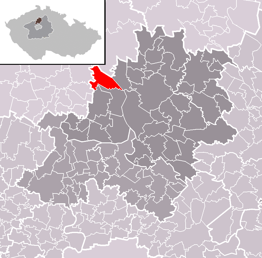 Location of Horní Počaply municipality within Mělník District and administrative area of Mělník as a Municipality with Extended Competence.